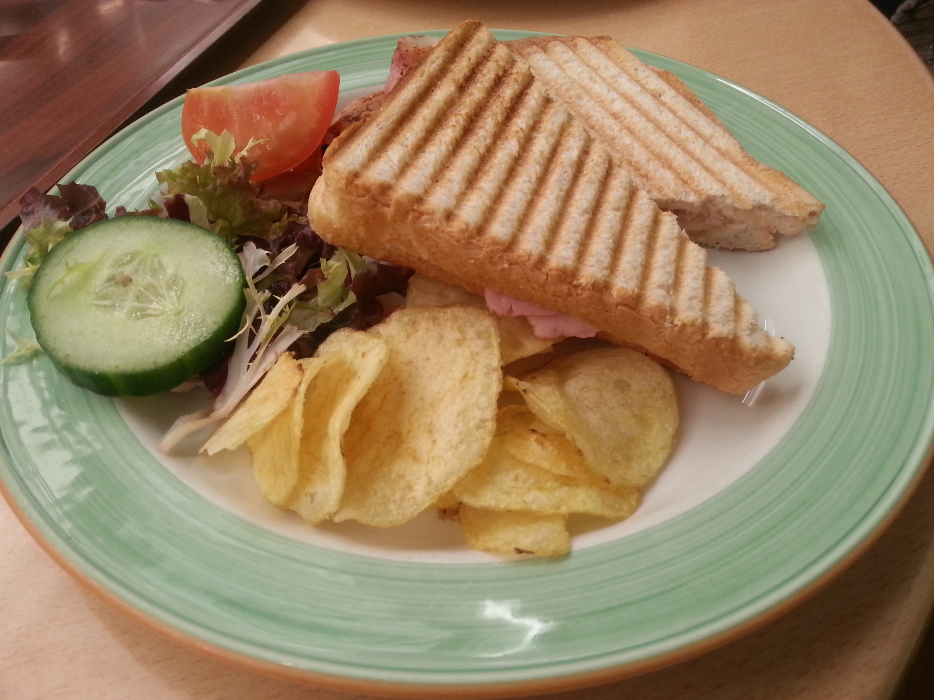 Grilled ham and cheese sandwich